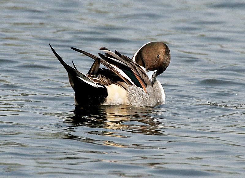 Northern Pintail (Anas acuta) in Kolkata, West Bengal, India.